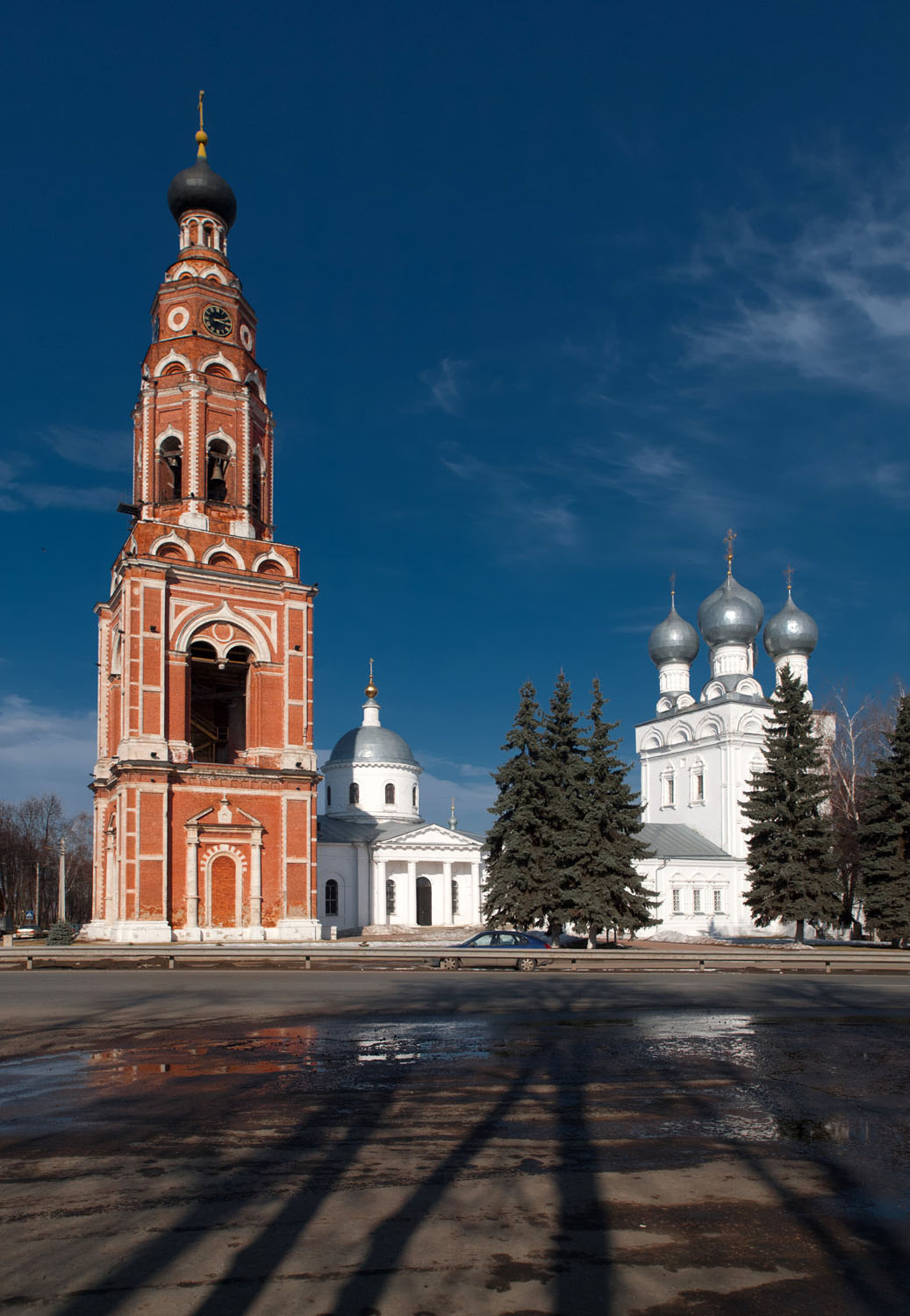 Cathedral square in Bronnitsy, Moscow Oblast